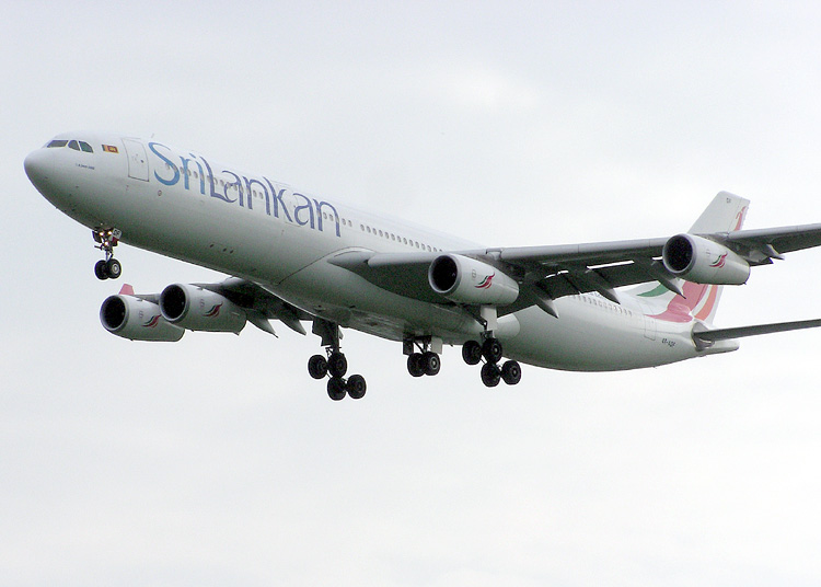 Airbus A340-300 (4R-ADF) of SriLankan Airlines landing at London (Heathrow) Airport.